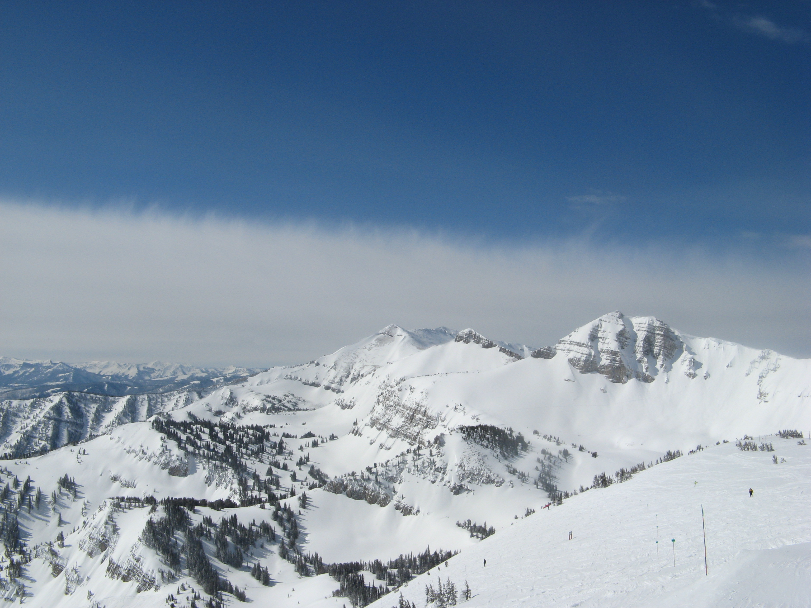 View from the top of Rendezvous Bowl, around 11 AM, 3/28/2008.